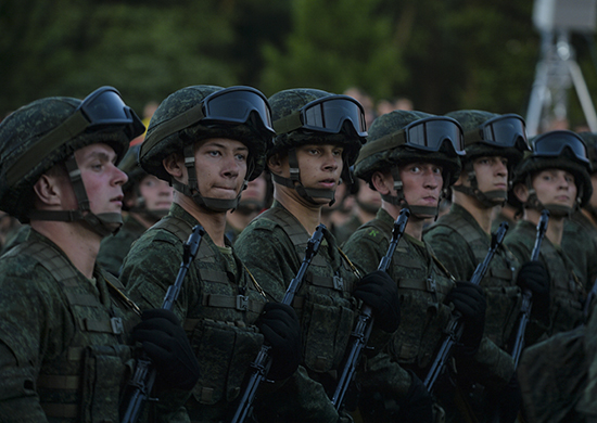 Командующий войсками ЗВО проверил готовность военнослужащих к параду в Минске, посвящённому Дню независимости Белоруссии